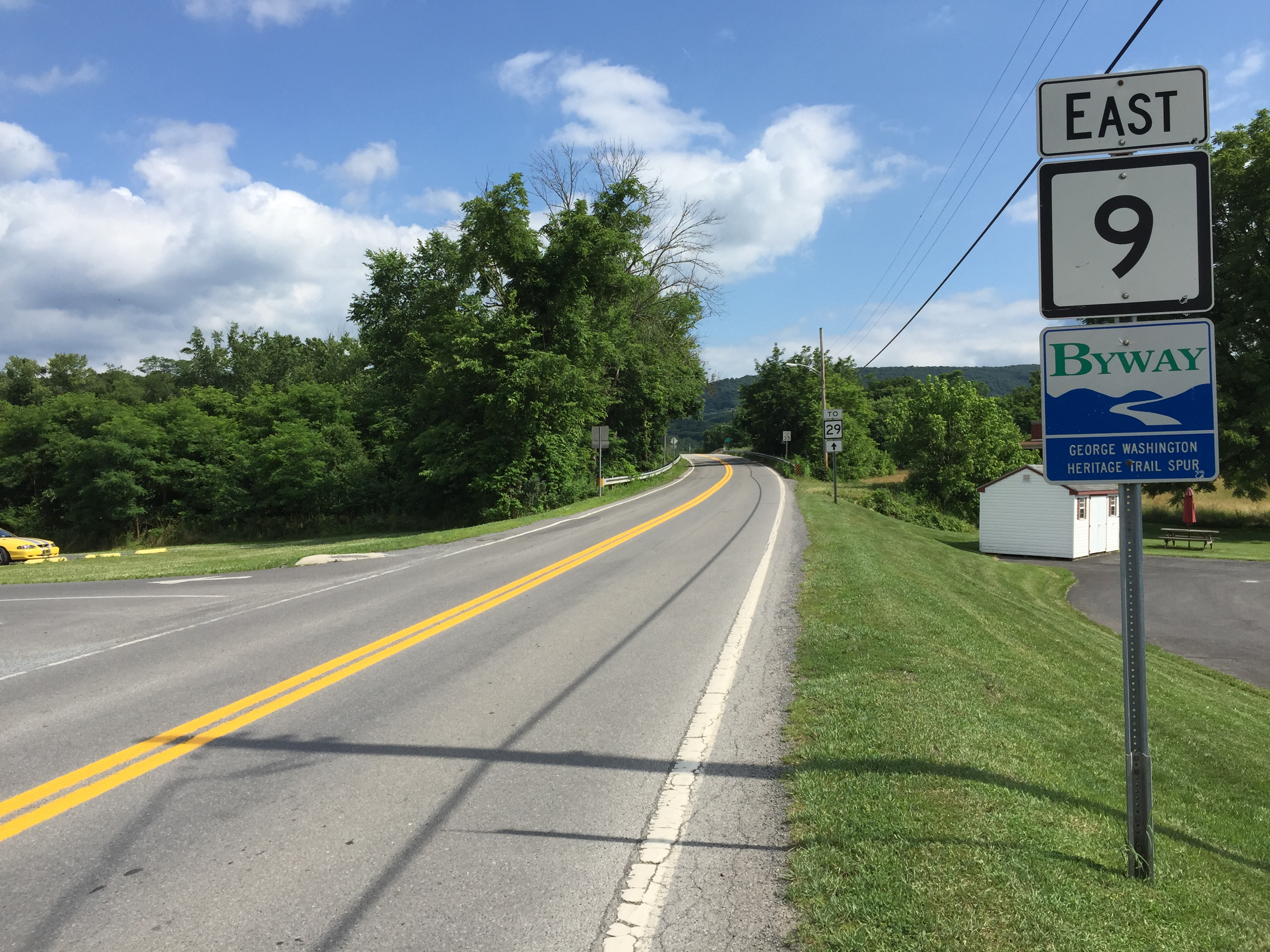 View east along West Virginia State Route 9 (Henry W Miller Highway) just east of Apple Way in Paw Paw, Morgan County, West Virginia